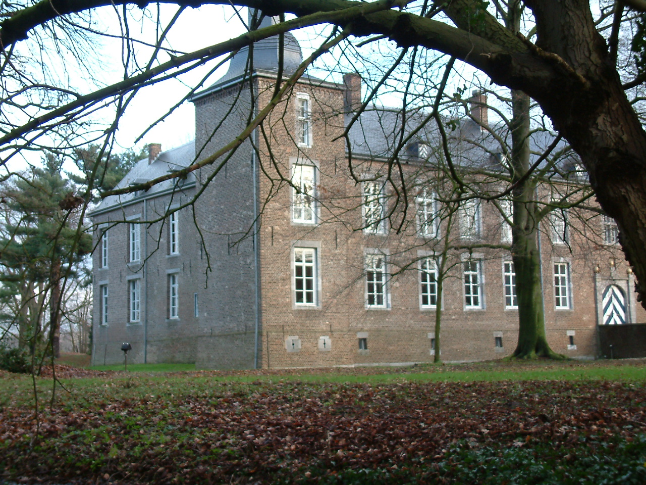 Wolfrath Castle near Holtum, The Netherlands